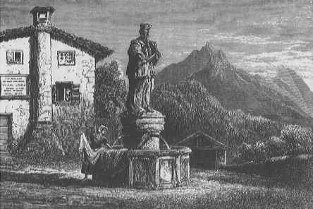 Drawn by Amelia Edwards in her book Untrodden Peaks and Unfrequented Valleys. Can be found in Chapter 7, Caprile.